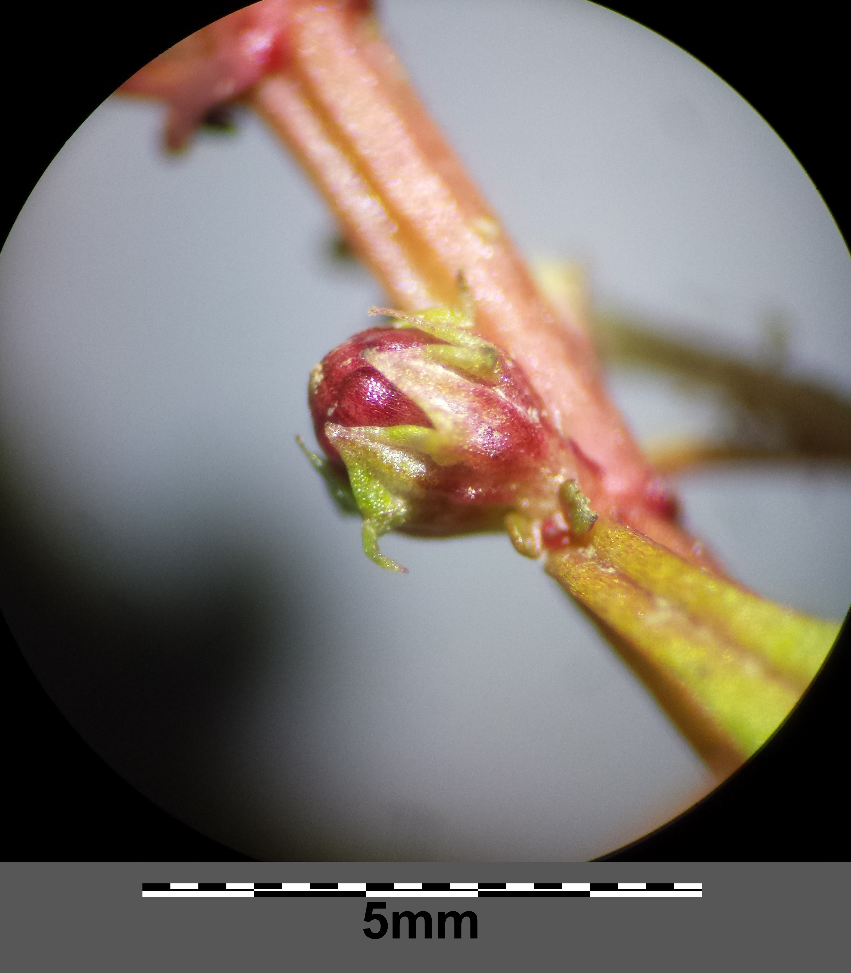 Fruit Taxonym: Peplis portula ss Fischer et al. EfÖLS 2008 ISBN 978-3-85474-187-9 Location: Rudmannser Teich, district Zwettl, Lower Austria - ca. 580 m a.s.l. Habitat: ground of a lake